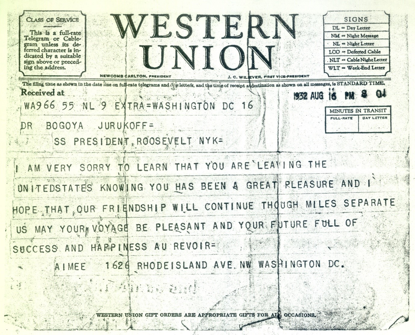 A telegram sent by F. Roosevelt to B. Yurukov